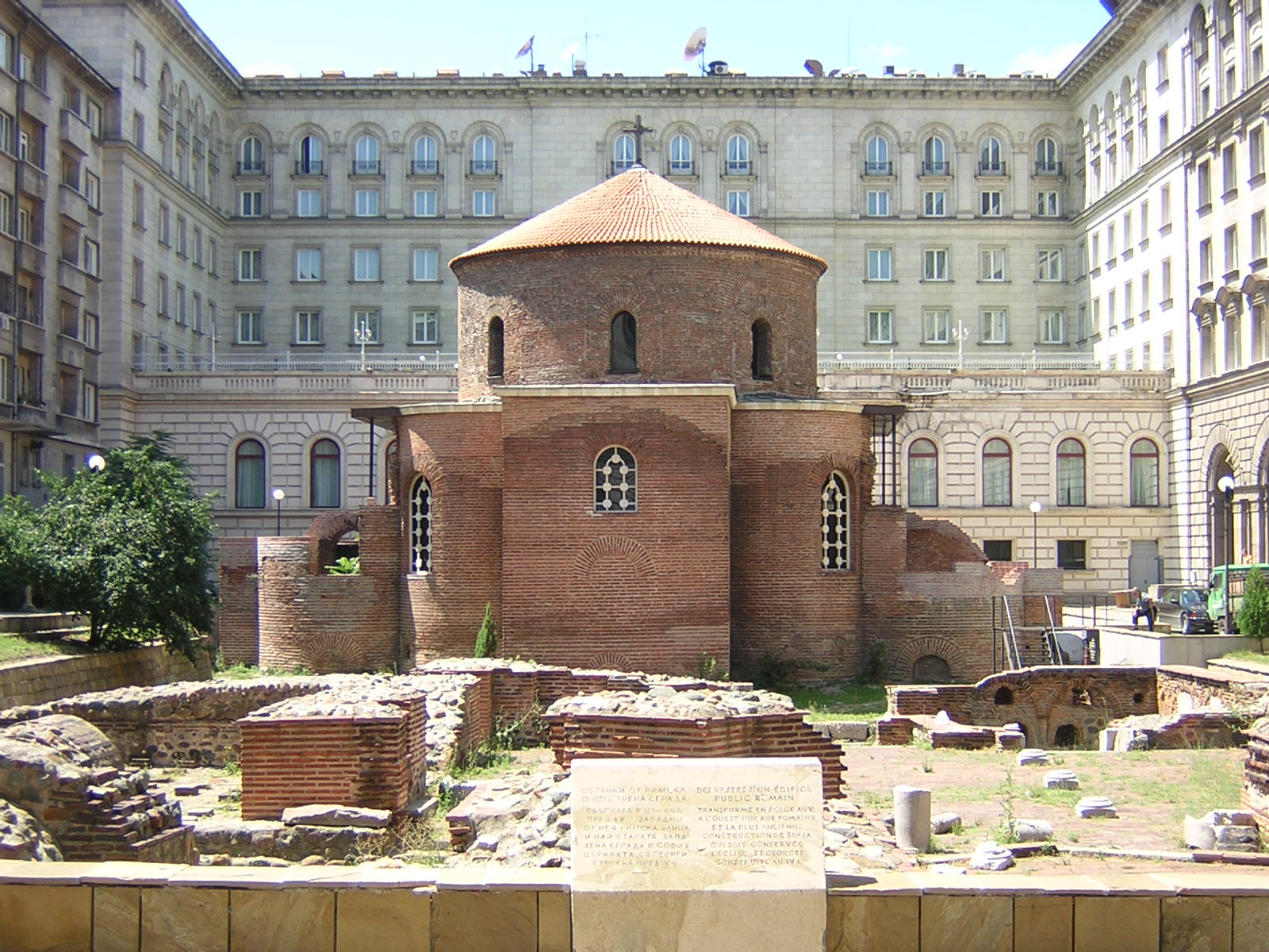 St. George Rotunda in Sofia, Bulgaria; in the foreground remains of Serdica, in the background the back of the Sheraton Hotel